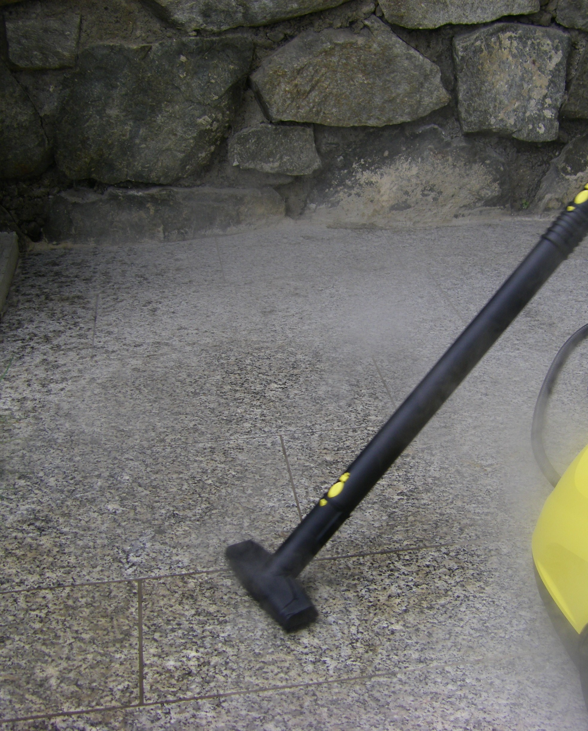 A steam cleaner in action.